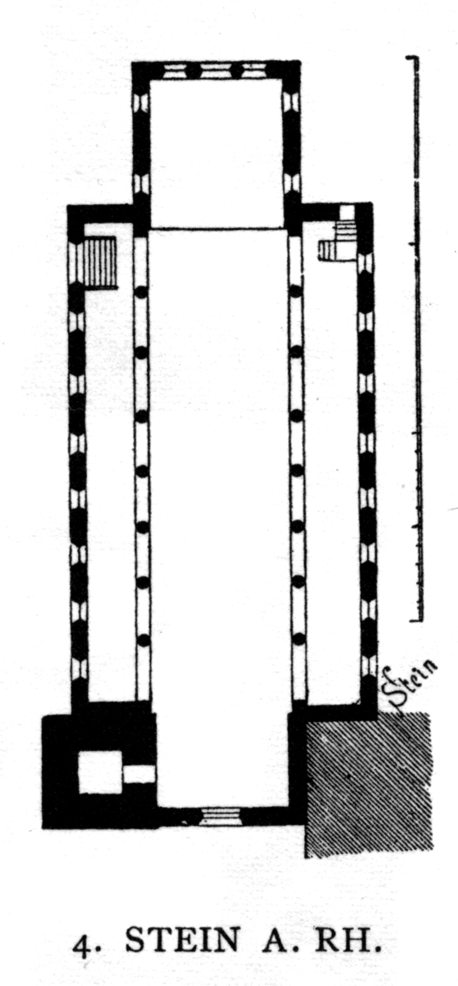 Church of Stein am Rhein, floor plan.